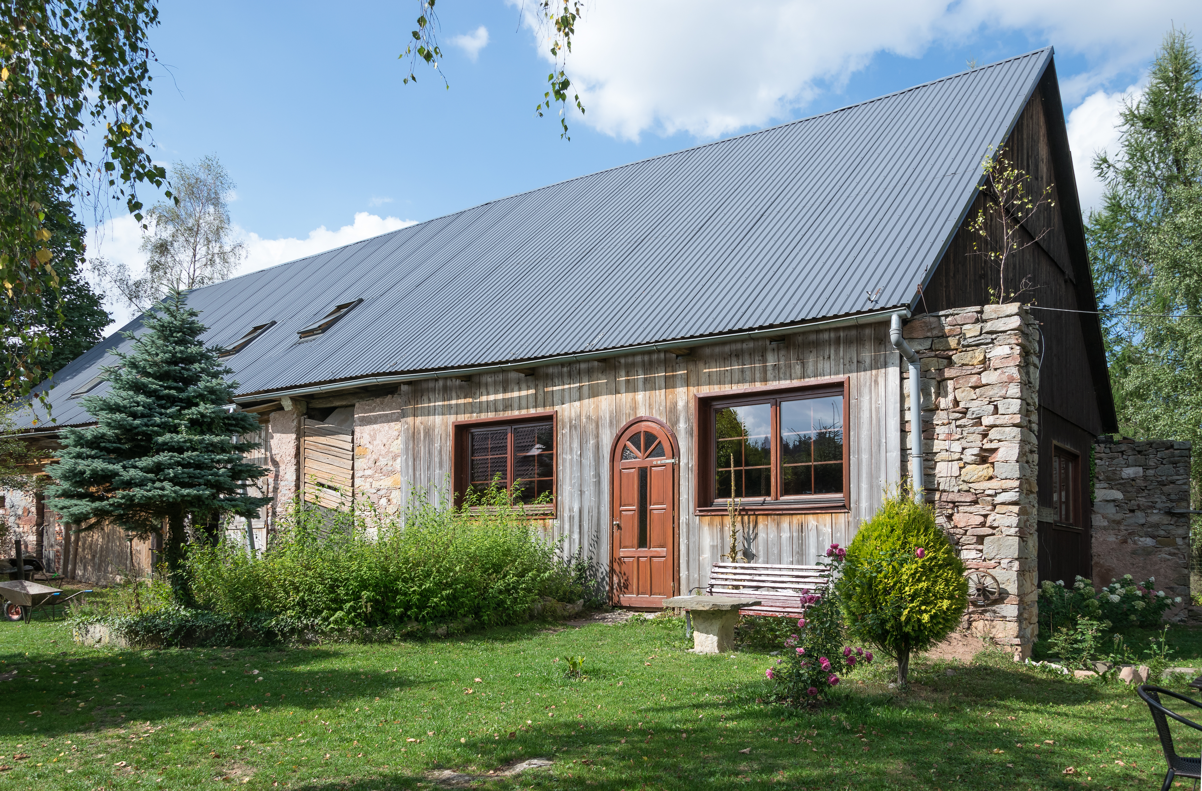 House No. 10 in Kamieńczyk Wikidata has entry Q30048890 with data related to this item.